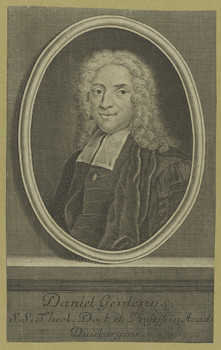 Portrait of Daniel Gerdes (1698–1765), German Calvinist theologian and historian.